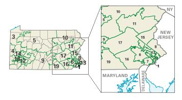 Image adapted from US fed gov't source